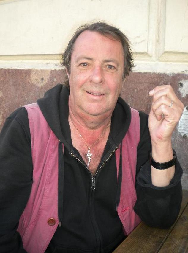 Pop icon Tommy BlomPlace: Gröne Jägaren, Götgatan, Stockholm, Sweden